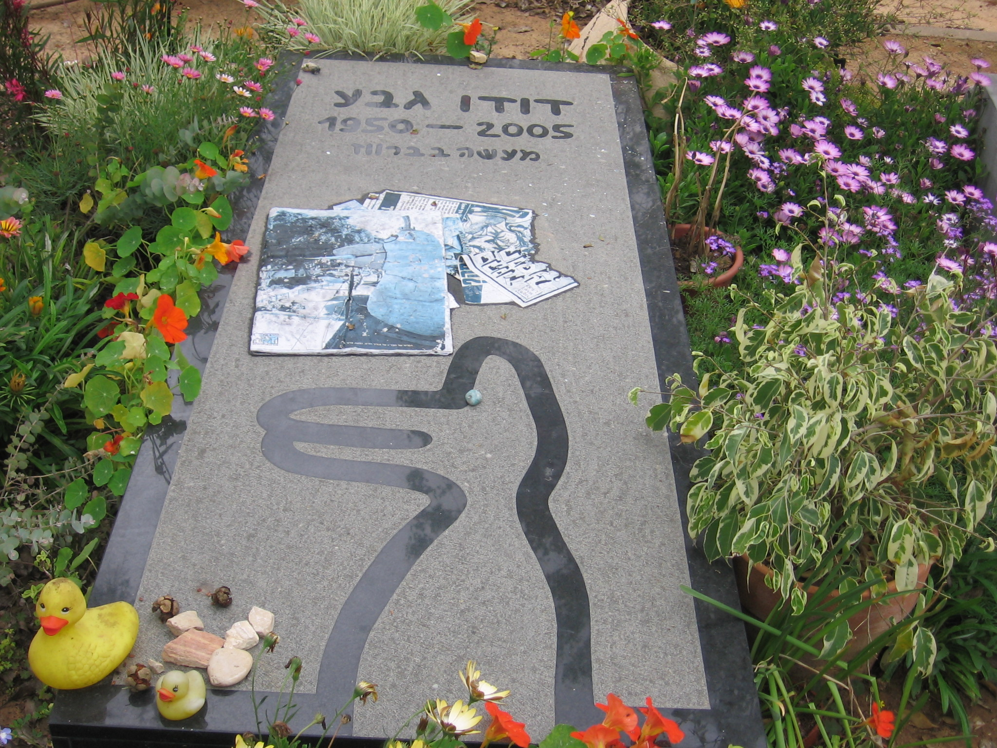 Geography of Israel